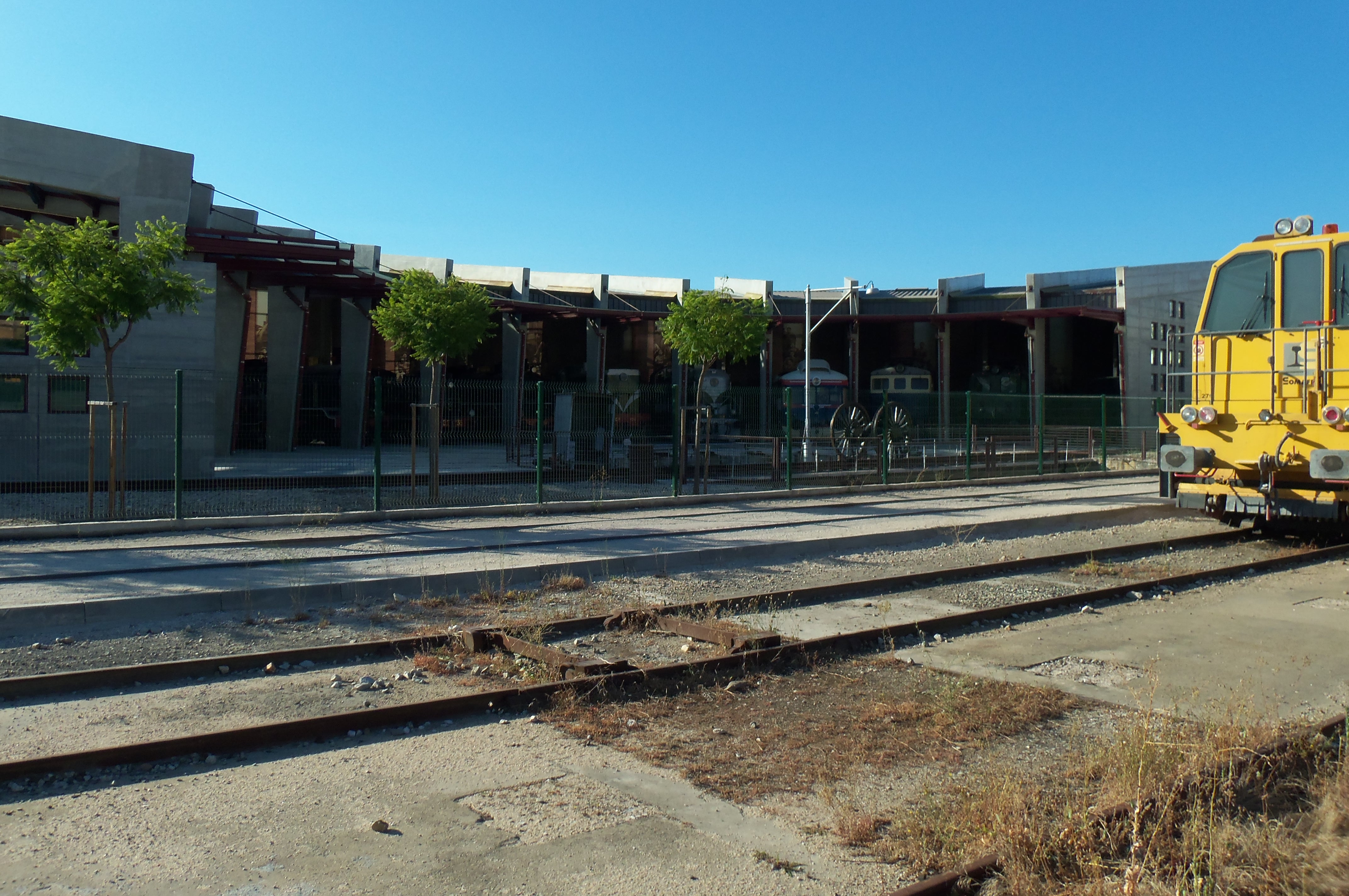 The Rotunda. Local exposure of some heritage railway rolling stock history.